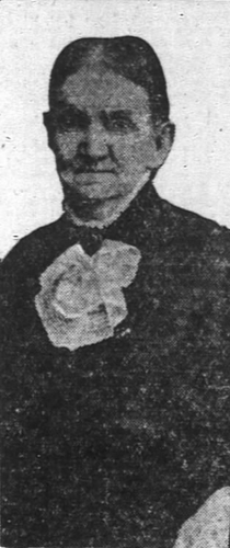 Martha Loftin Wilson, from a 1919 publication.